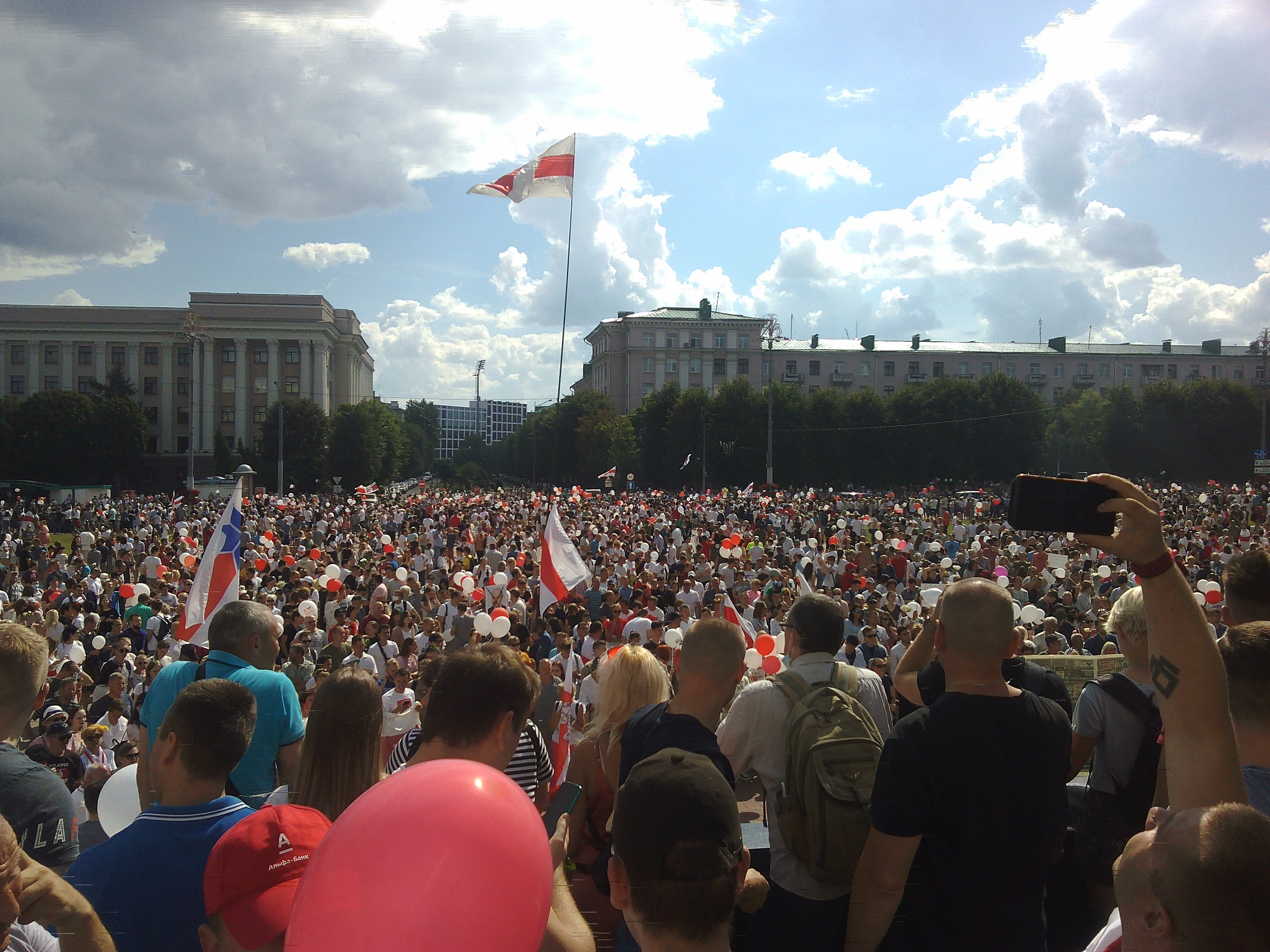 Protest rally against Lukashenko, 16 August. Mogilev, Belarus